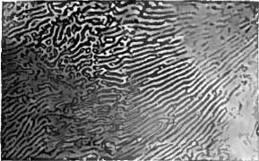 Photomicrograph of lead-tin alloy (eutectic).